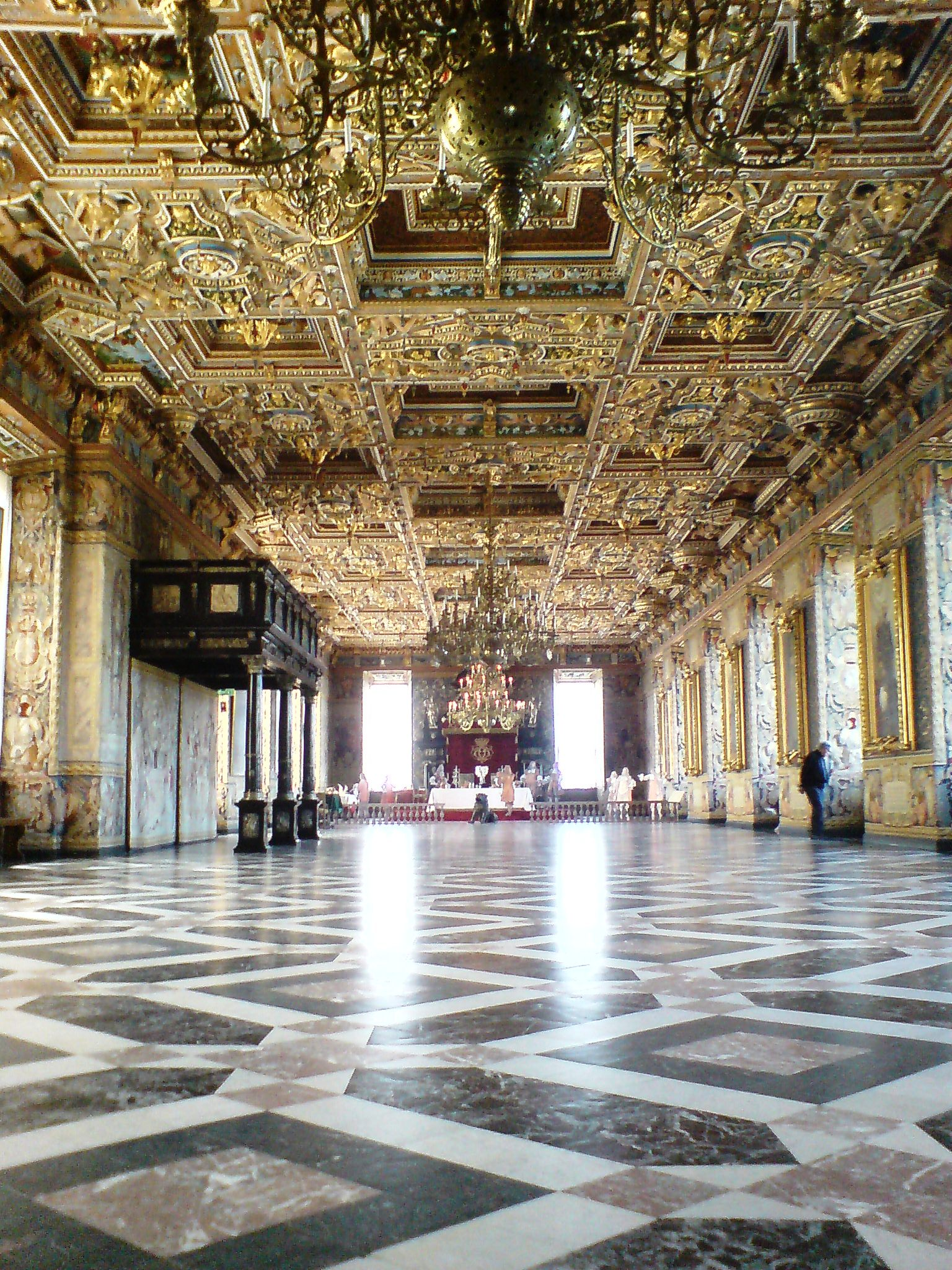 Knight's Hall of Frederiksborg Palace, Hilleröd